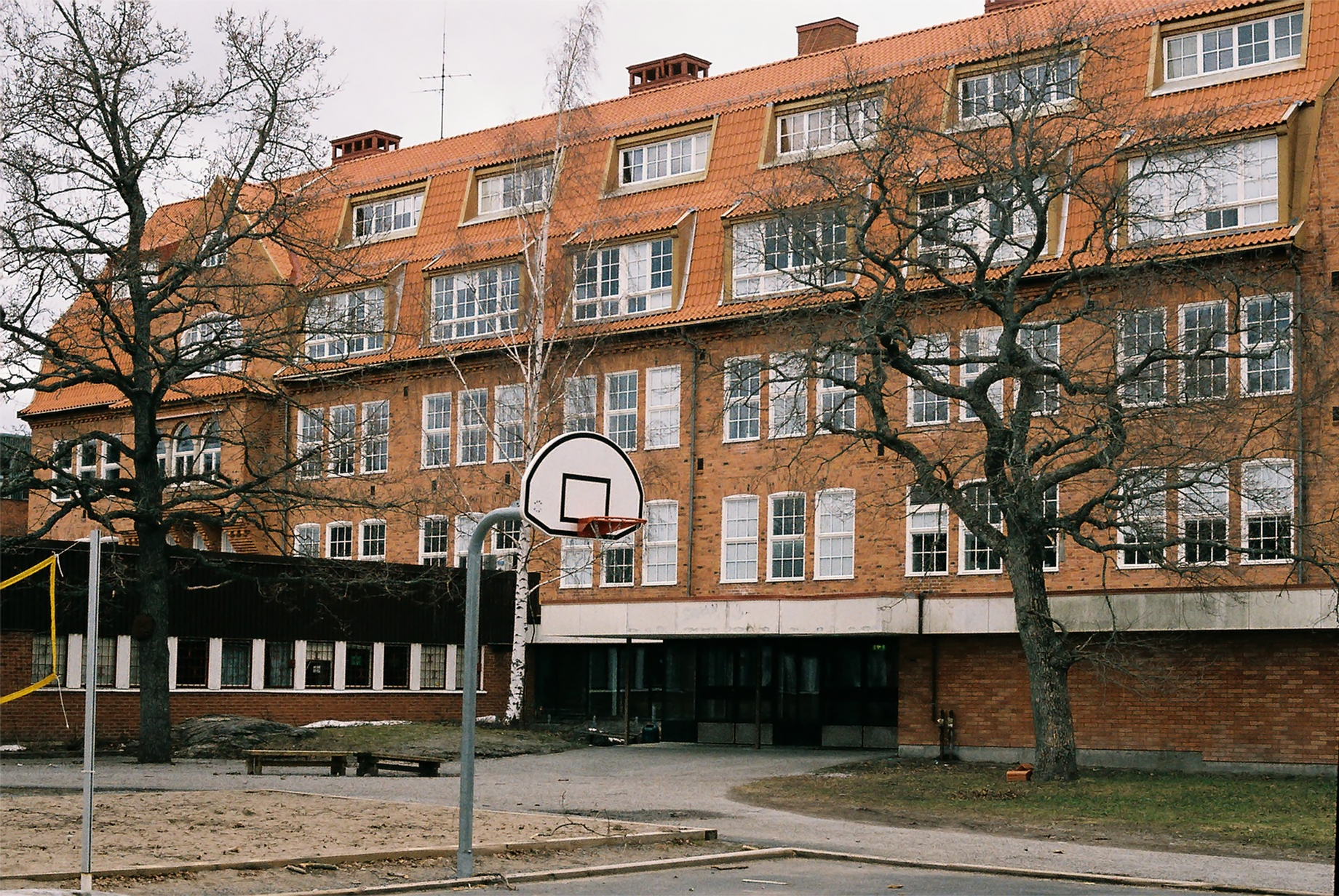 Saltsjöbaden Samskola